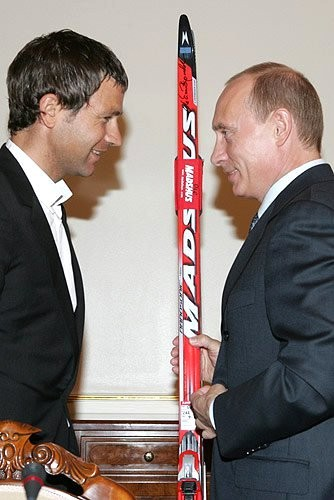 Ole-Einar Bjorndalen with Russian President Vladimir Putin